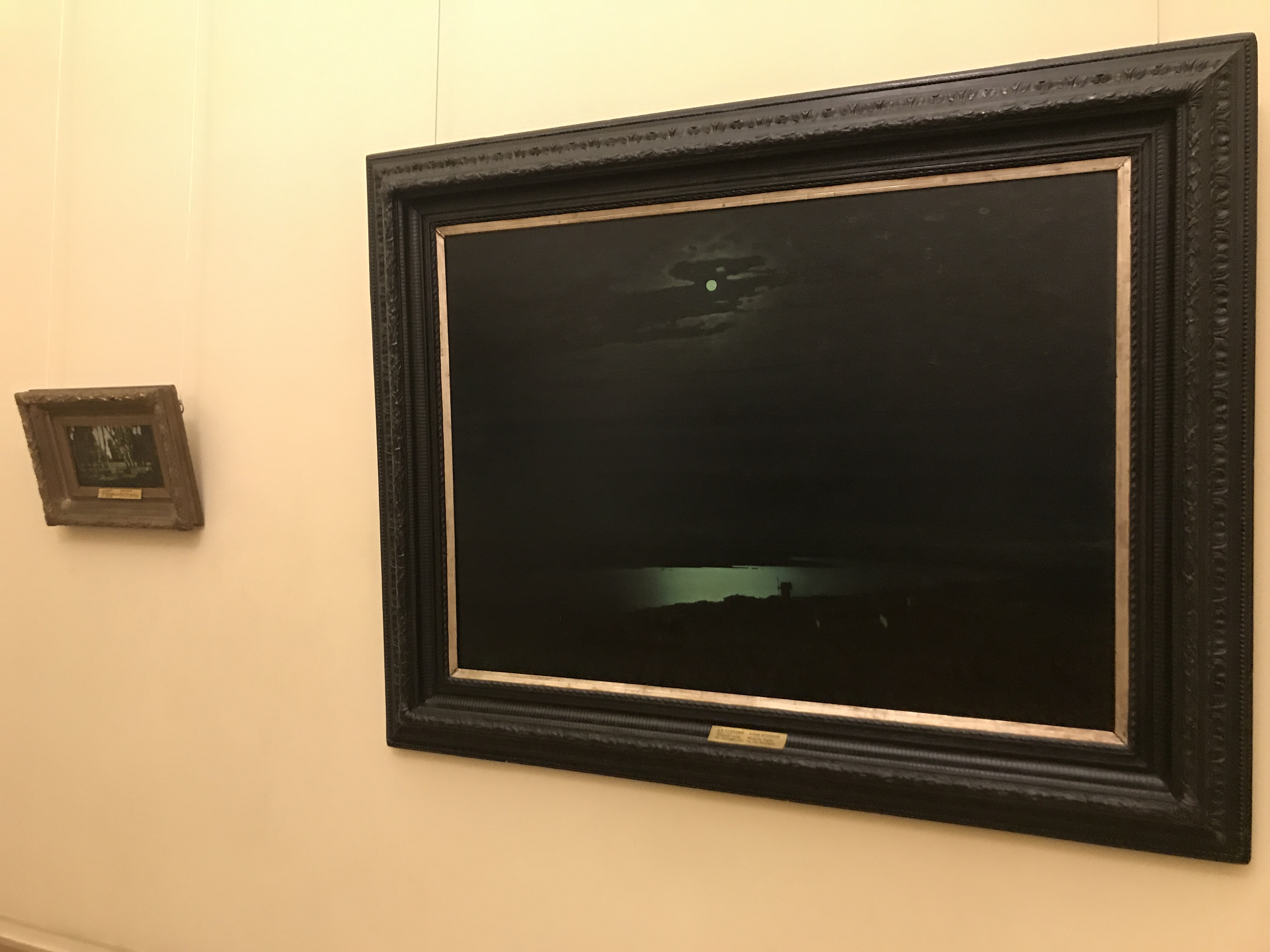 "Moonlit night on the Dnieper" (painting by Arkhip Kuindzhi, 1880) in the State Russian Museum